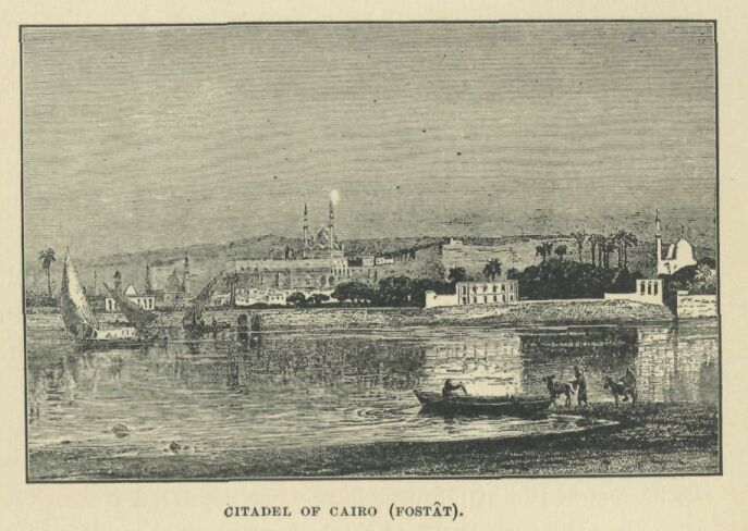 Drawing of the old Egyptian capital, Fostat, aka Fustat, aka Misr